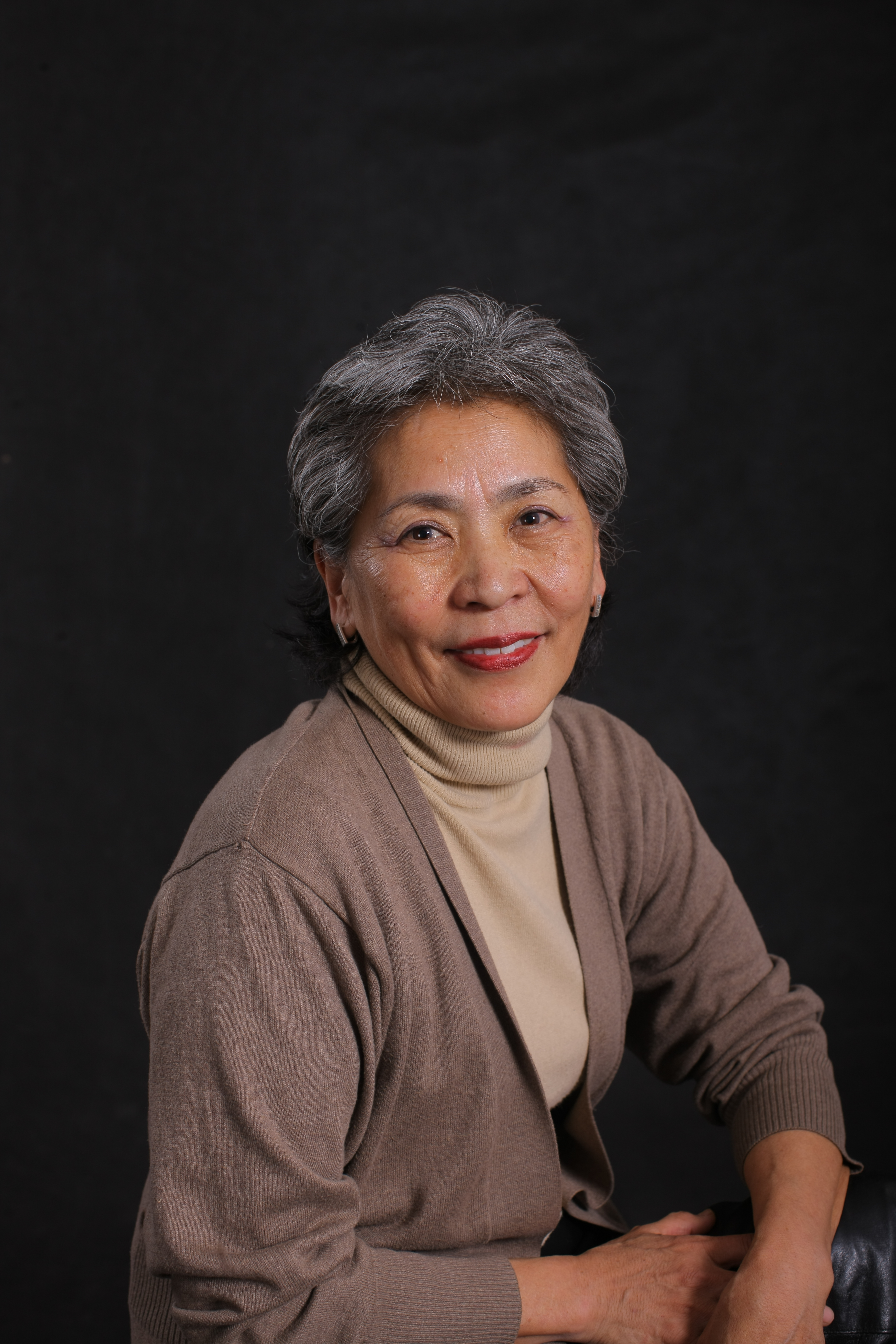 C.Туяа